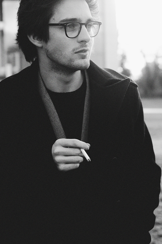 Mike Sheridan in 2012.